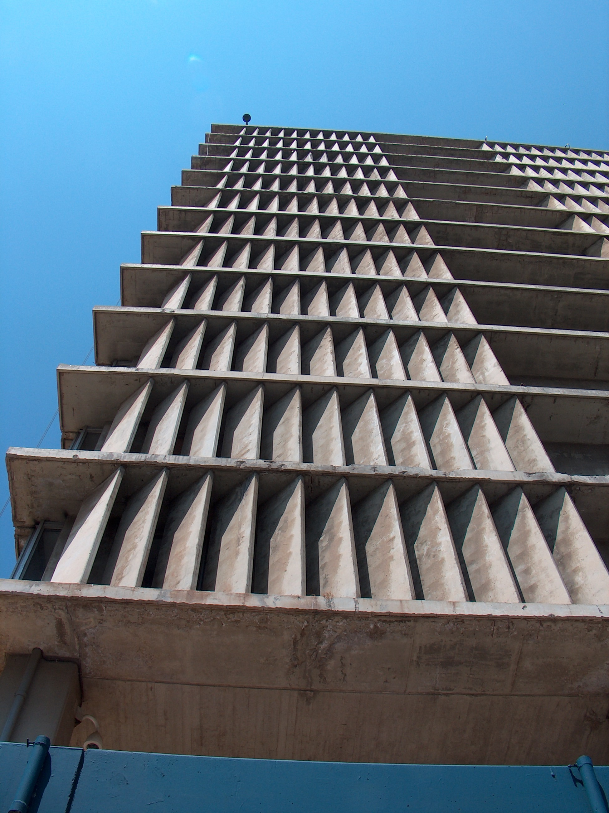 Tel Aviv town hall